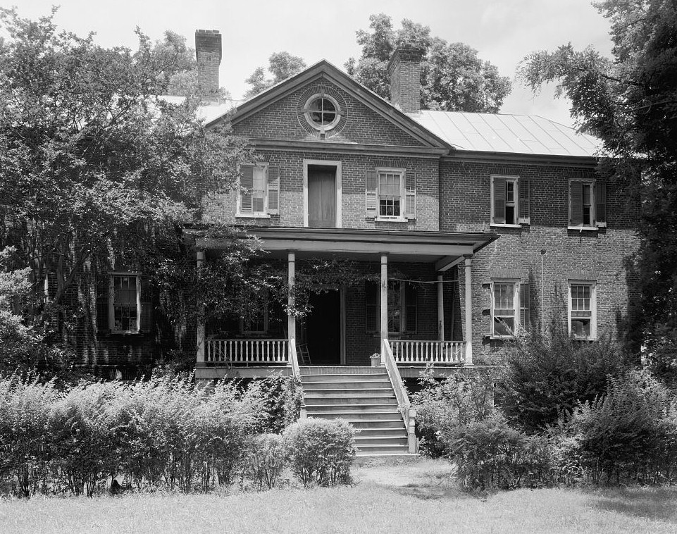 Bellair Plantation, New Bern (Craven County, North Carolina) cropped This image is available from the United States Library of Congress's Prints and Photographs division under the digital ID csas.02391.This tag does not indicate the copyright status of the attached work. A normal copyright tag is still required. See Commons:Licensing for more information. Rights Advisory: No known restrictions on publication. This work is in the public domain in the United States because it is a work prepared by an officer or employee of the United States Government as part of that person’s official duties under the terms of Title 17, Chapter 1, Section 105 of the US Code. Note: This only applies to original works of the Federal Government and not to the work of any individual U.S. state, territory, commonwealth, county, municipality, or any other subdivision. This template also does not apply to postage stamp designs published by the United States Postal Service since 1978. (See § 313.6(C)(1) of Compendium of U.S. Copyright Office Practices). It also does not apply to certain US coins; see The US Mint Terms of Use. This file has been identified as being free of known restrictions under copyright law, including all related and neighboring rights.